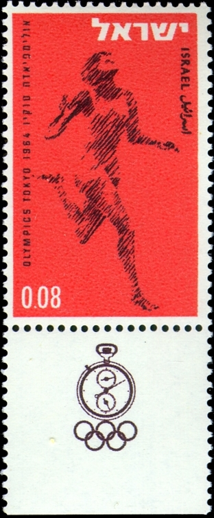 Stamp marking Israel at the 1964 Summer Olympics